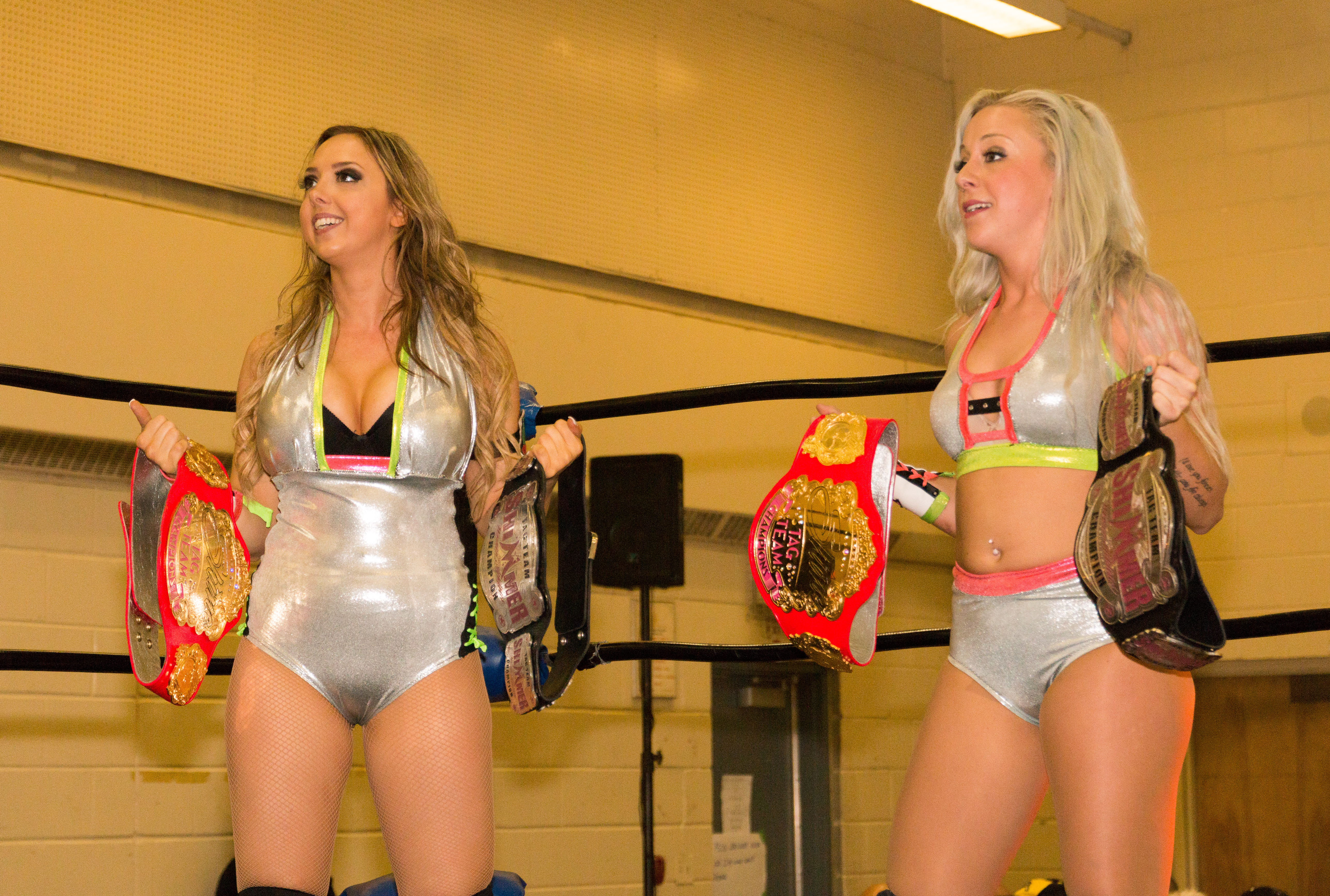 The Kimber Bombs - Cherry Bomb on the left & Kimber Lee on the right - making their ring entrance at Smash Wrestling's Summer Showdown III. They are each carrying the Shine Tag Team championship belt in the right hand (the red leather belts) and the Shimmer Tag Team belt in their left (the black leather belts).